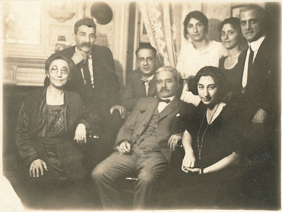 Photo of General Andranik, Dr Moses Housepian, their wives, & others; a note on the back by Dr Housepian's wife, Makrouhie Housepian (presumably written for her children Marjorie and Edgar, as she refers to her husband, Dr Housepian, as "Papa"), names the people in the photo (transliterating the general's name as "Antranig," the Western Armenian pronunciation): "Kergin Hadji, Uncle Takvor, [Jim?] Chankalian, Mrs Antranig, myself & Papa. In the middle seated Gen. Antranig, Askanoush in our living room at 125 East 24th St. N.Y.C. 1925 or 1926"